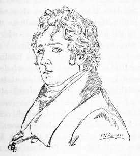 Johan David Valerius, Swedish jurist, civil servant and translator, member of the Swedish Academy